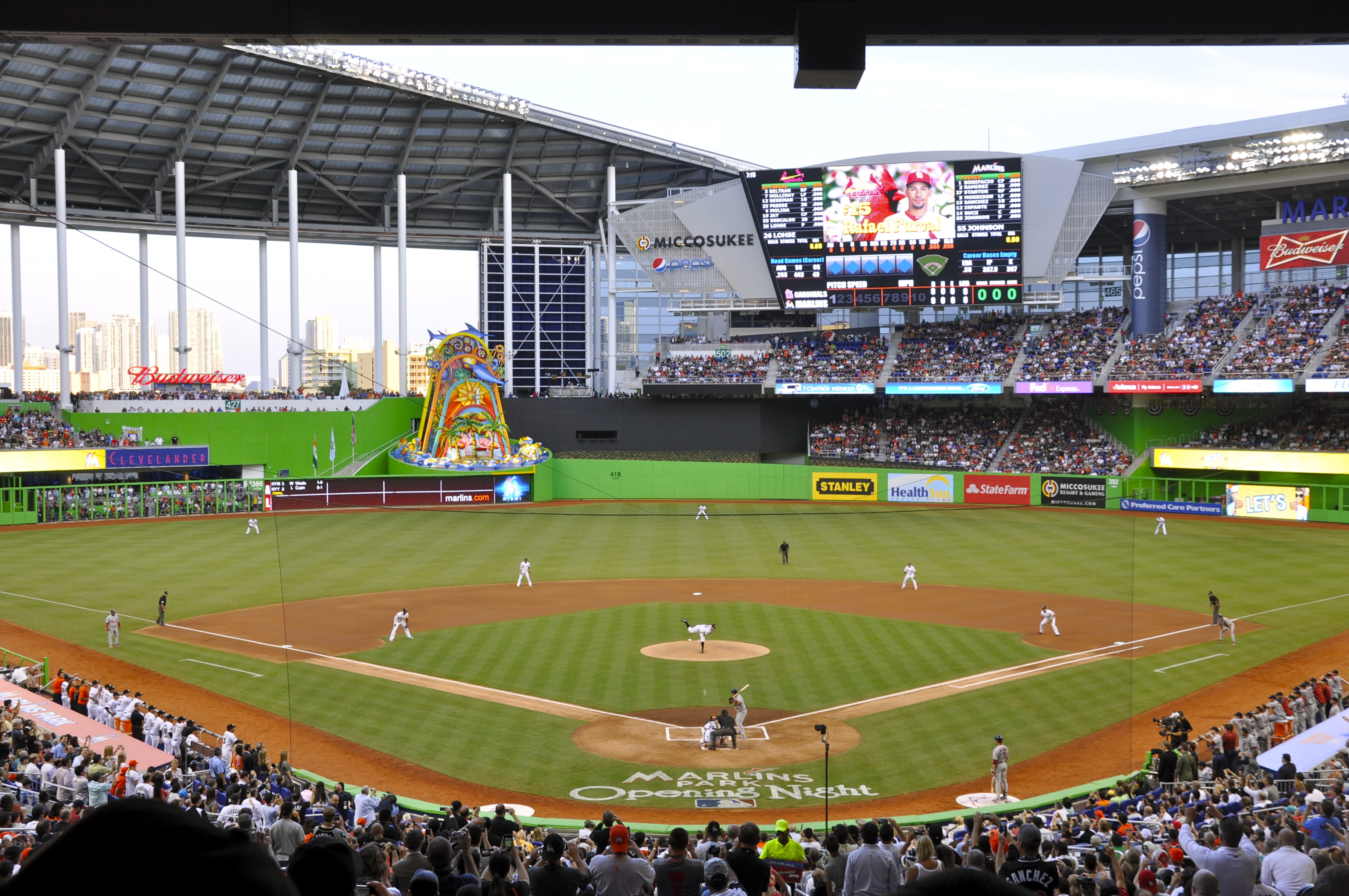 First pitch at Marlins Park, home of the Miami Marlins, which held its first Major League game on April 4, 2012, between the Marlins and the St. Louis Cardinals.